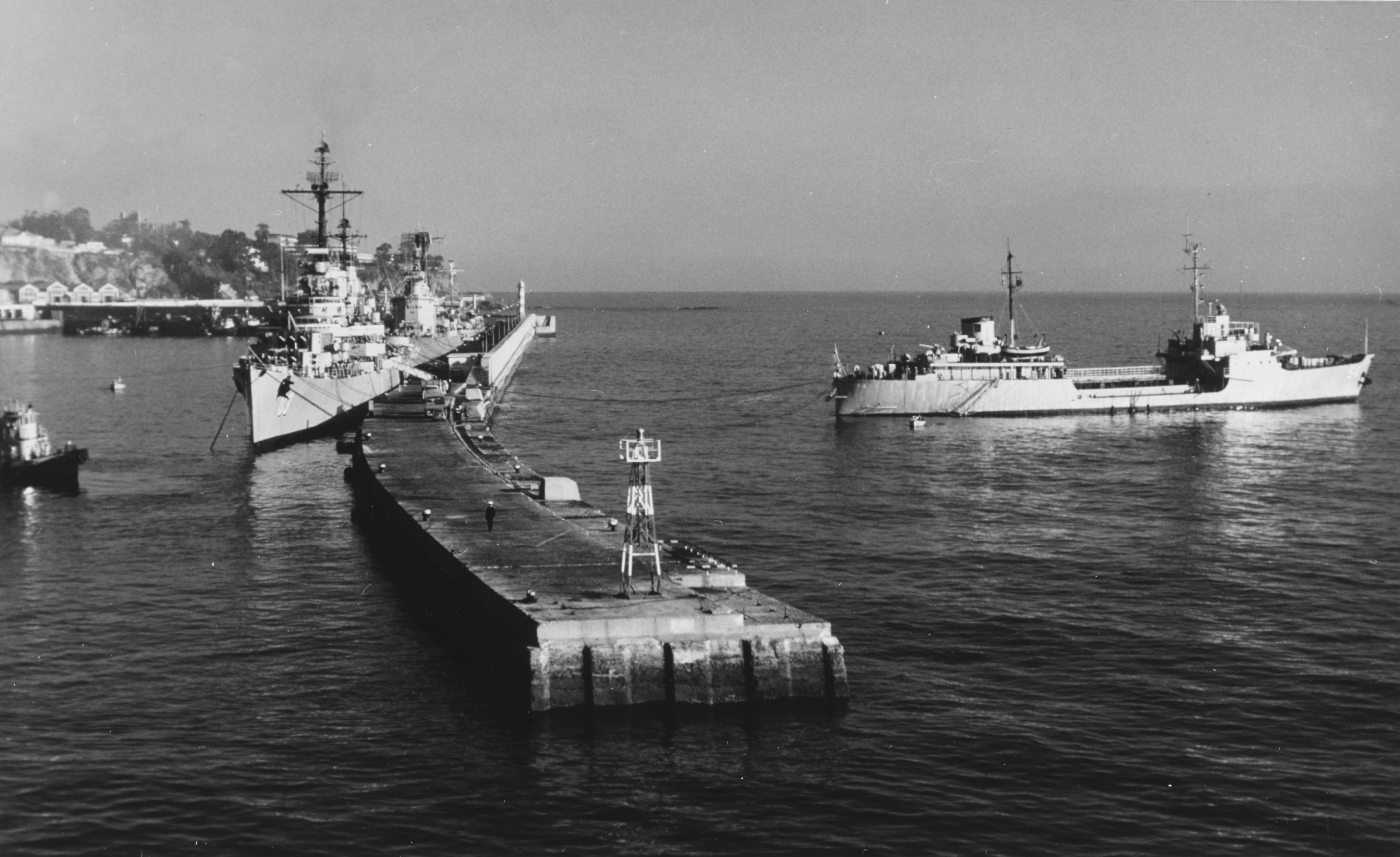 View along the harbour breakwater at Valparaíso, Chile, during exercise "Unitas XVI", 10 September 1975. Ships present are: Chilean cruisers Capitán Prat (CL-03), ex-USS Nashville (CL-43), Almirante Latorre (CL-04), ex-Swedish Göta Lejon, and the oiler Beagle (54), ex-USS Genesee (AOG-8).